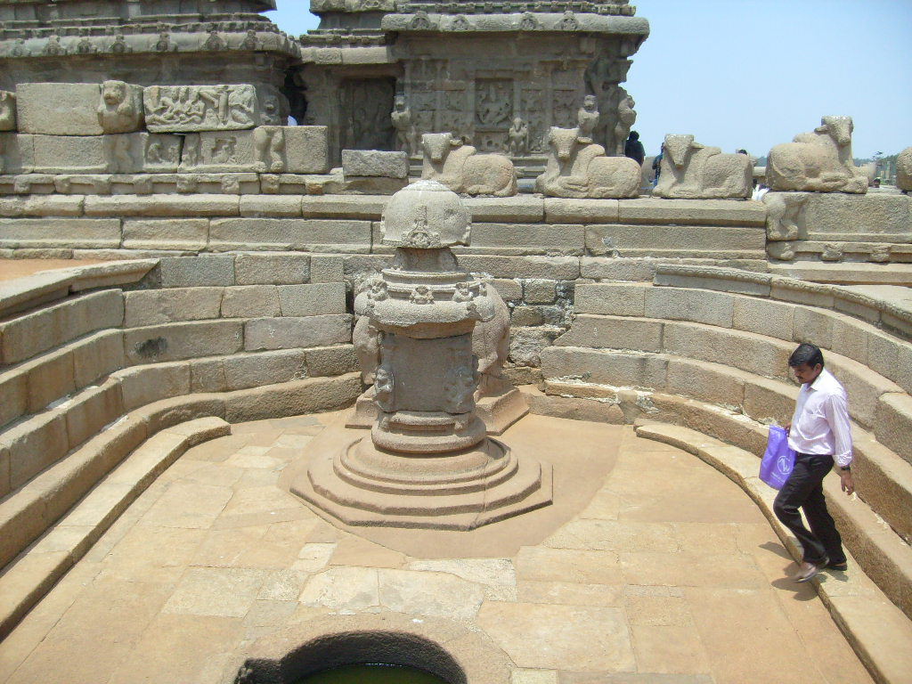 Miniature shrine dedicate to the Hindu god Shiva within the Shore Temple complex. There is a status of bhu varaha in the background. Accidentally discovered in 1990, the miniature shrine and bhu varaha were constructed during the time of Narasimhavarman I while the well was constructed during the time of Narasimhavarman II